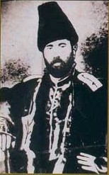 Nakhichevansky, Ismail Khan Ekhsan ogly (1819-1908), general of the cavalry, son of Ehsan khan and brother of Kalbali khan.